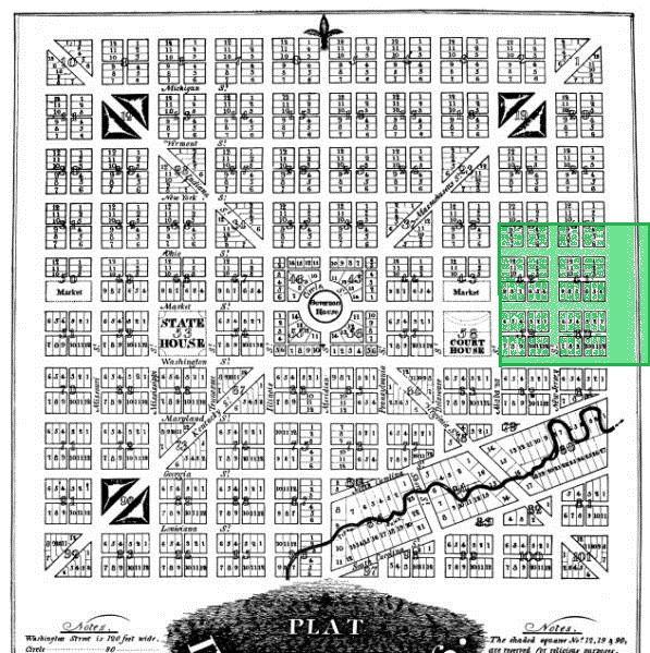 The Cole Noble District highlighted on Alexander Ralston's original plat of Indianapolis